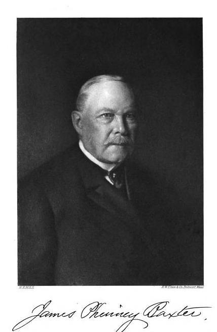 Portrait of James Phinney Baxter with signature